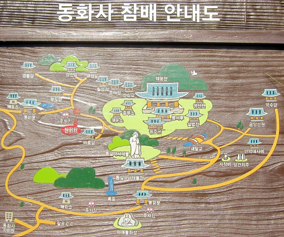 Outline of the Donghwa-Temple (Donghwasa) in South-Korea.